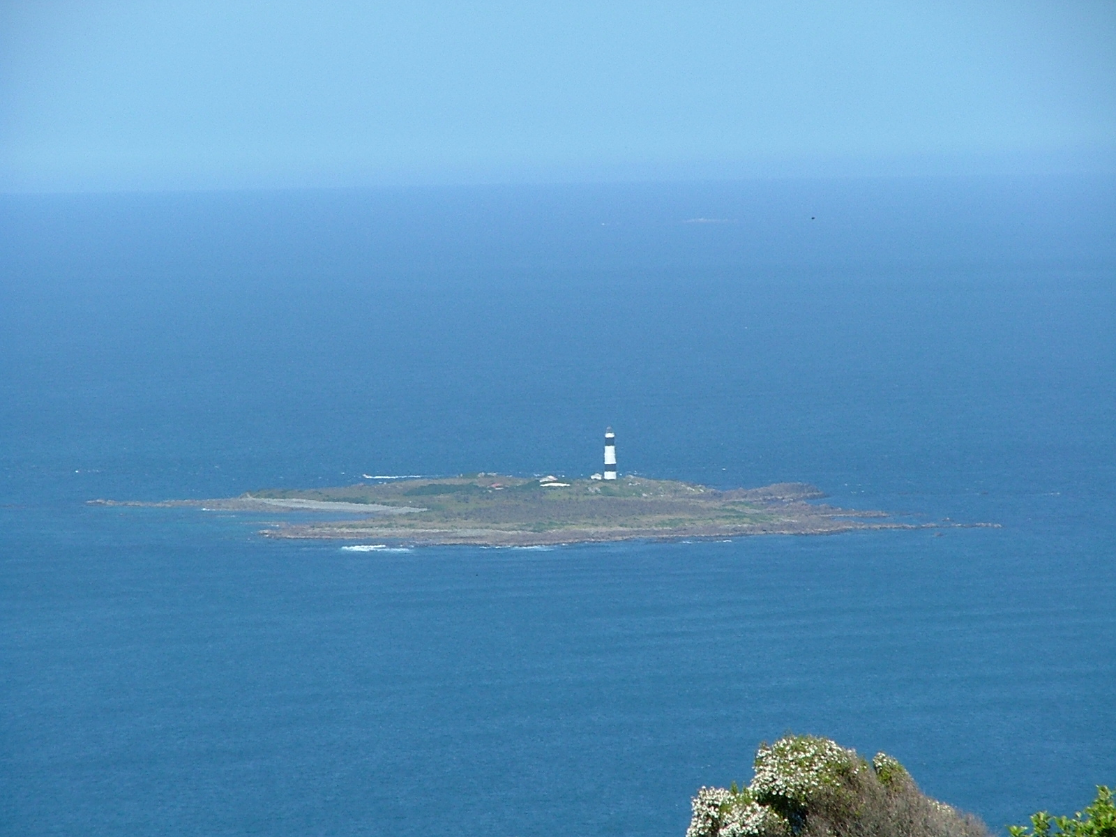 Dog Island off the coast of the South Island of New Zealand as seen from the top of Bluff Hill.